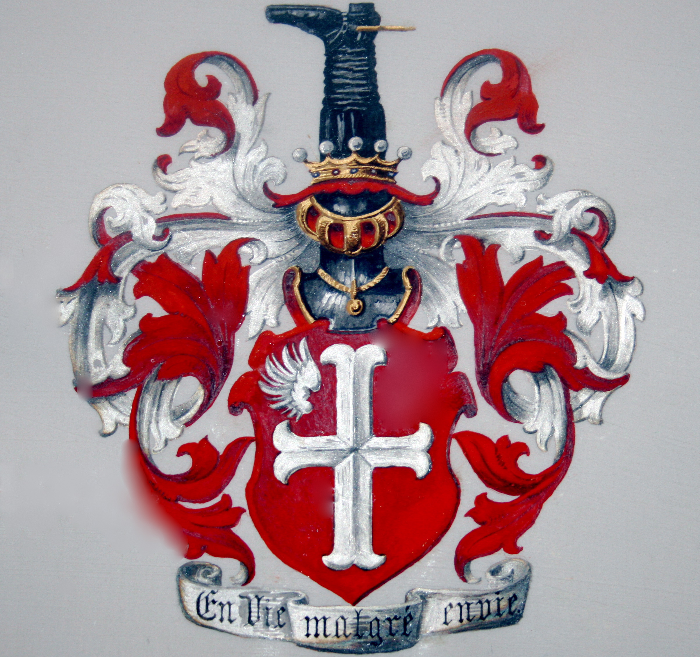 family crest of familiy von Winckel